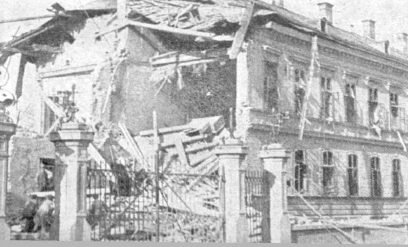 Ljubljana po zavezniškem bombnem napadu